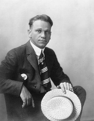 Wallace Beery circa 1914 in Chicago.